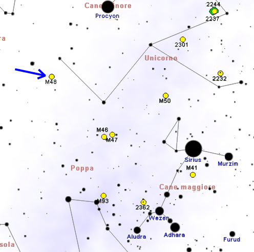 M48